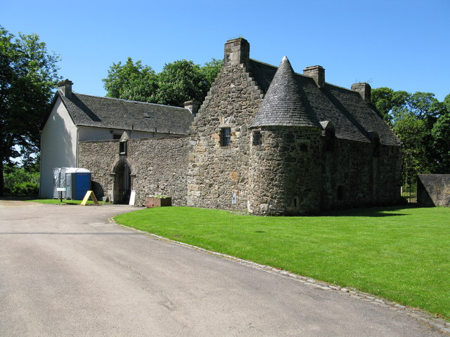 Provan Hall Provan Hall is usually regarded as the best-preserved mediaeval fortified country house in Scotland. The north range of Provan Hall, the part in the foreground of the photograph, was probably built in the 1460s, which would mean it was built about ten years earlier than Provand's Lordship, usually considered to be Glasgow's oldest house.